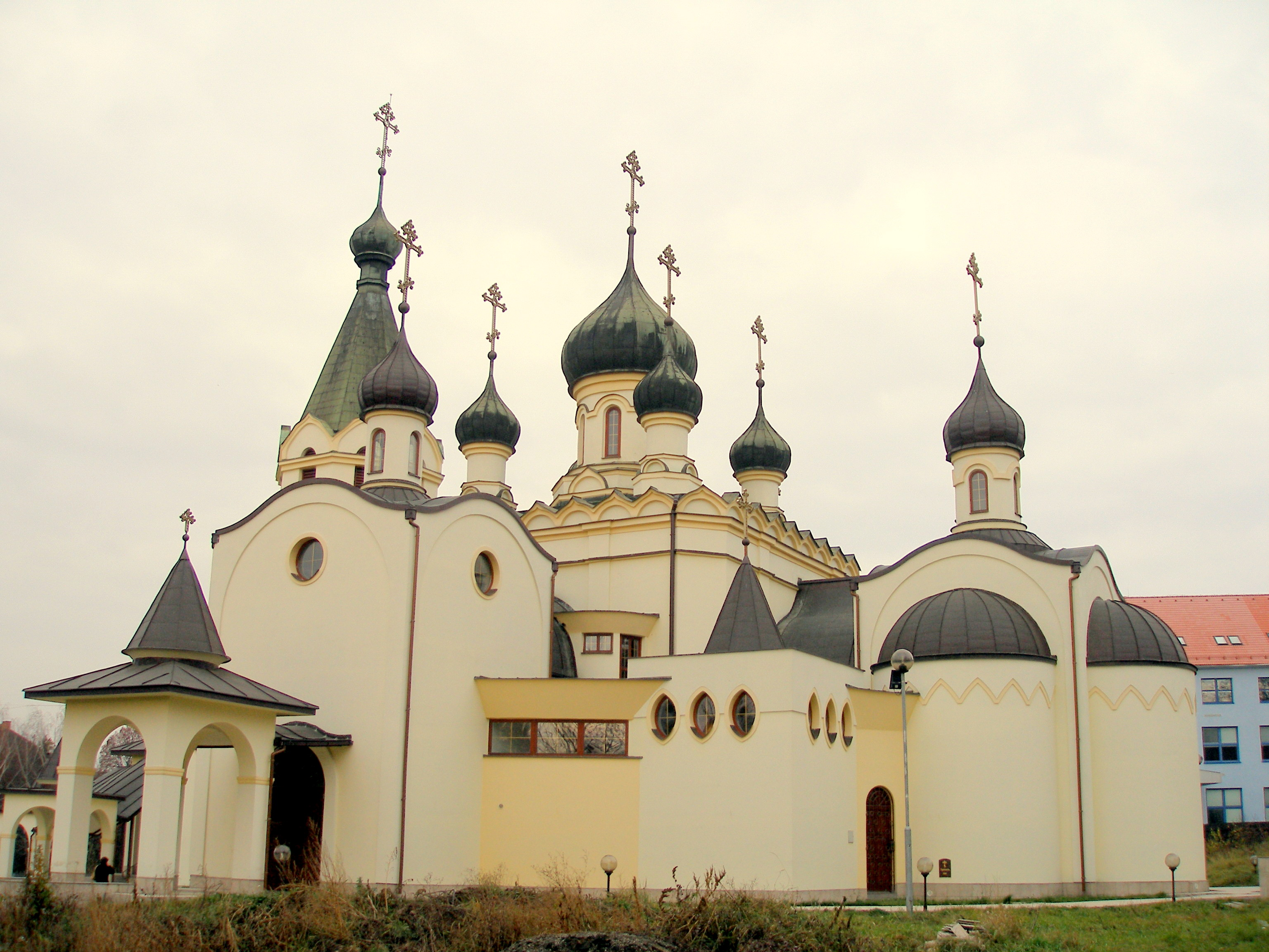 Saint Alexander Nevsky Russian Orthodox Cathedral in Prešov